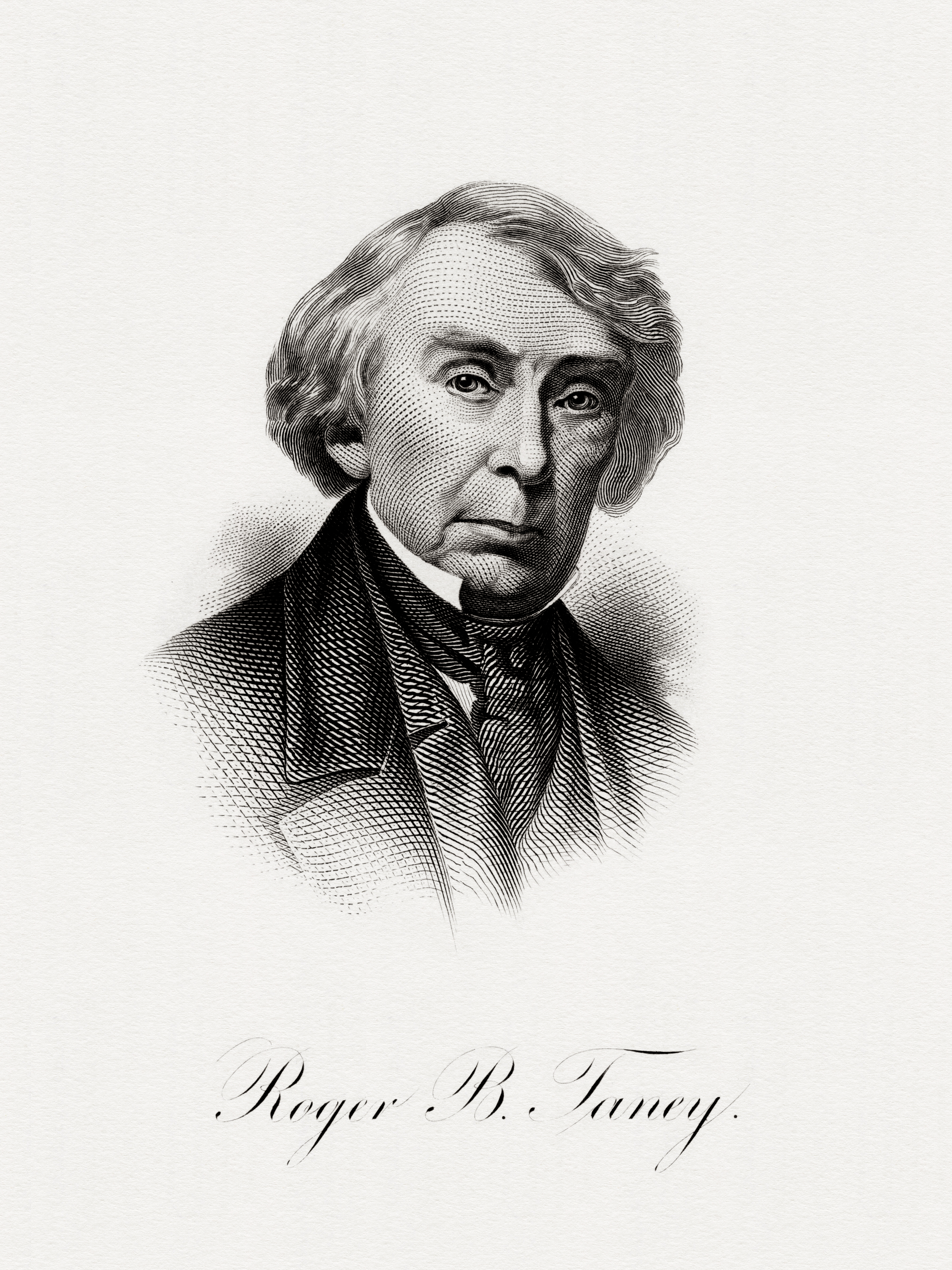 Engraved BEP portrait of U.S. Secretary of the Treasury Roger B. Taney